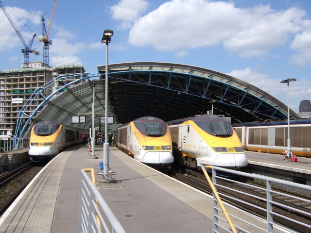 Eurostar trains at Waterloo International.